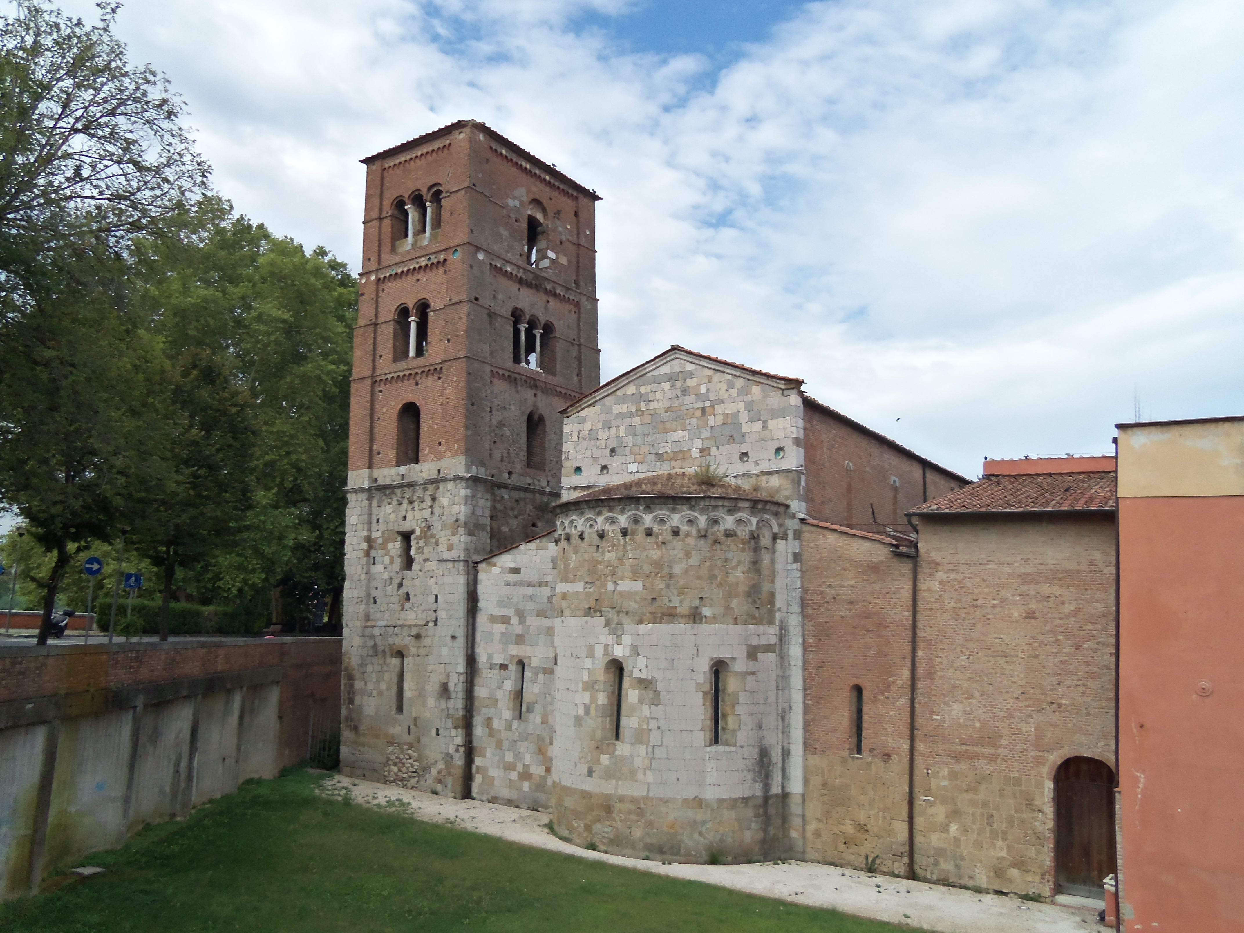 Chiesa di San Michele degli scalzi, veduta dell'abside e del campanile, Cisanello. Pisa.